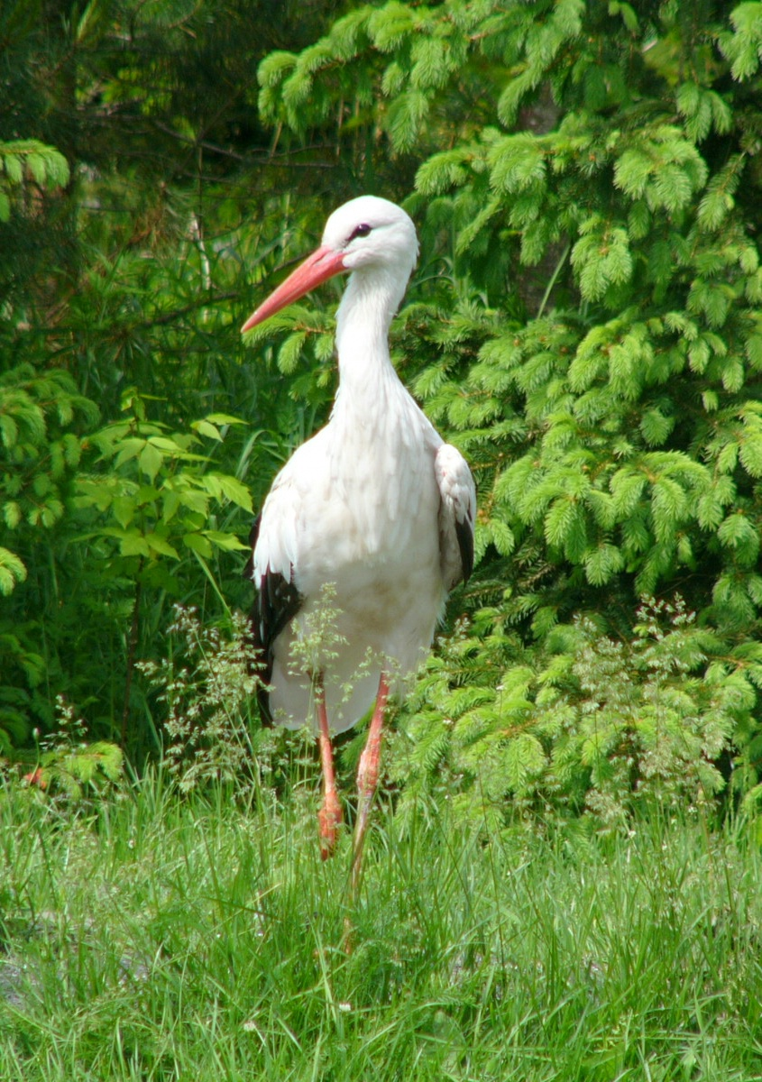 White Stork, Poland